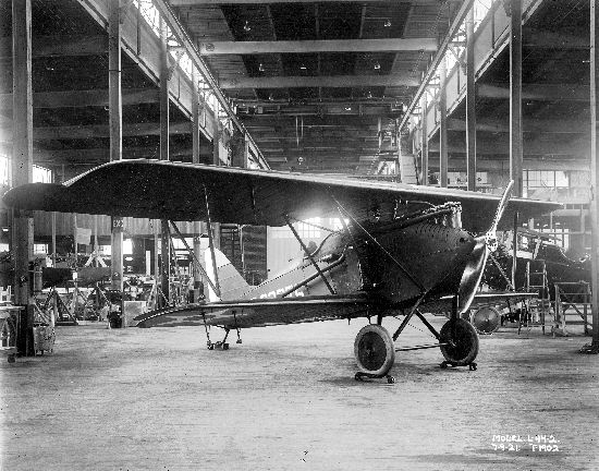 Curtiss PN-1 fighter aircraft.